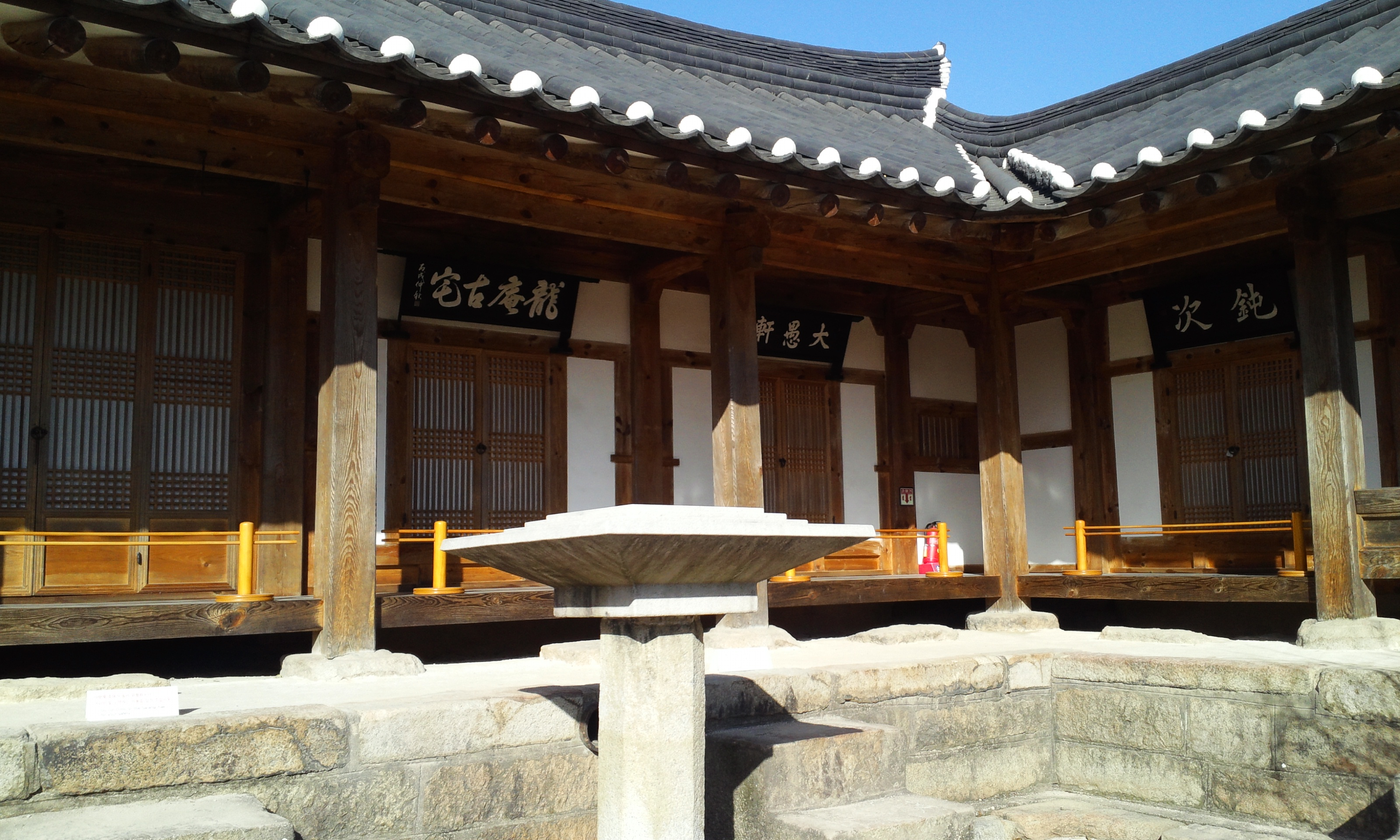 It's Hanok which is Korean Traditional House. It was taken on the first day of 2014.